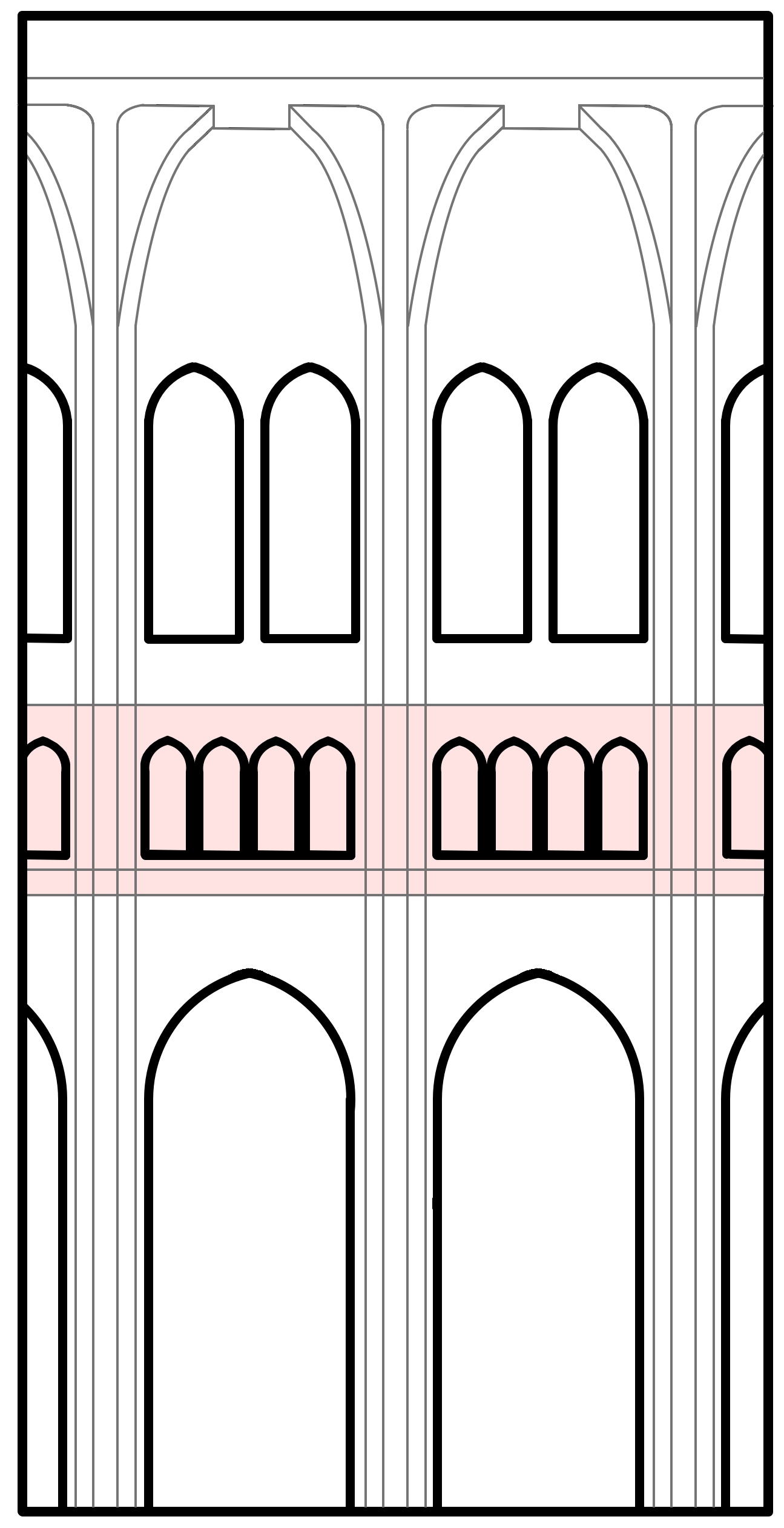 Triforium in diagram